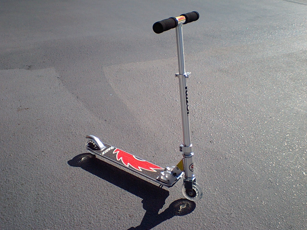 Razor Pro Model built in Feb. 2010